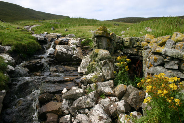 Remains of old mill, Mingulay The stream flowed through the mill, of which little evidence remains, except for a few dry stone walls.